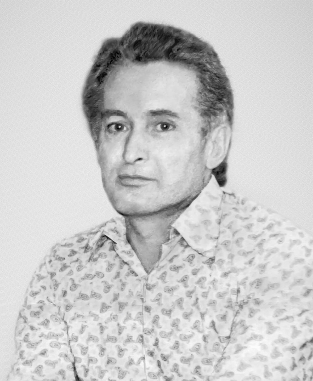 Yuri Golfand circa 1979